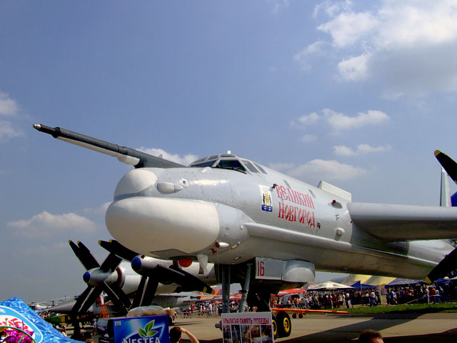 MAKS Airshow-2007. Tu-95MS